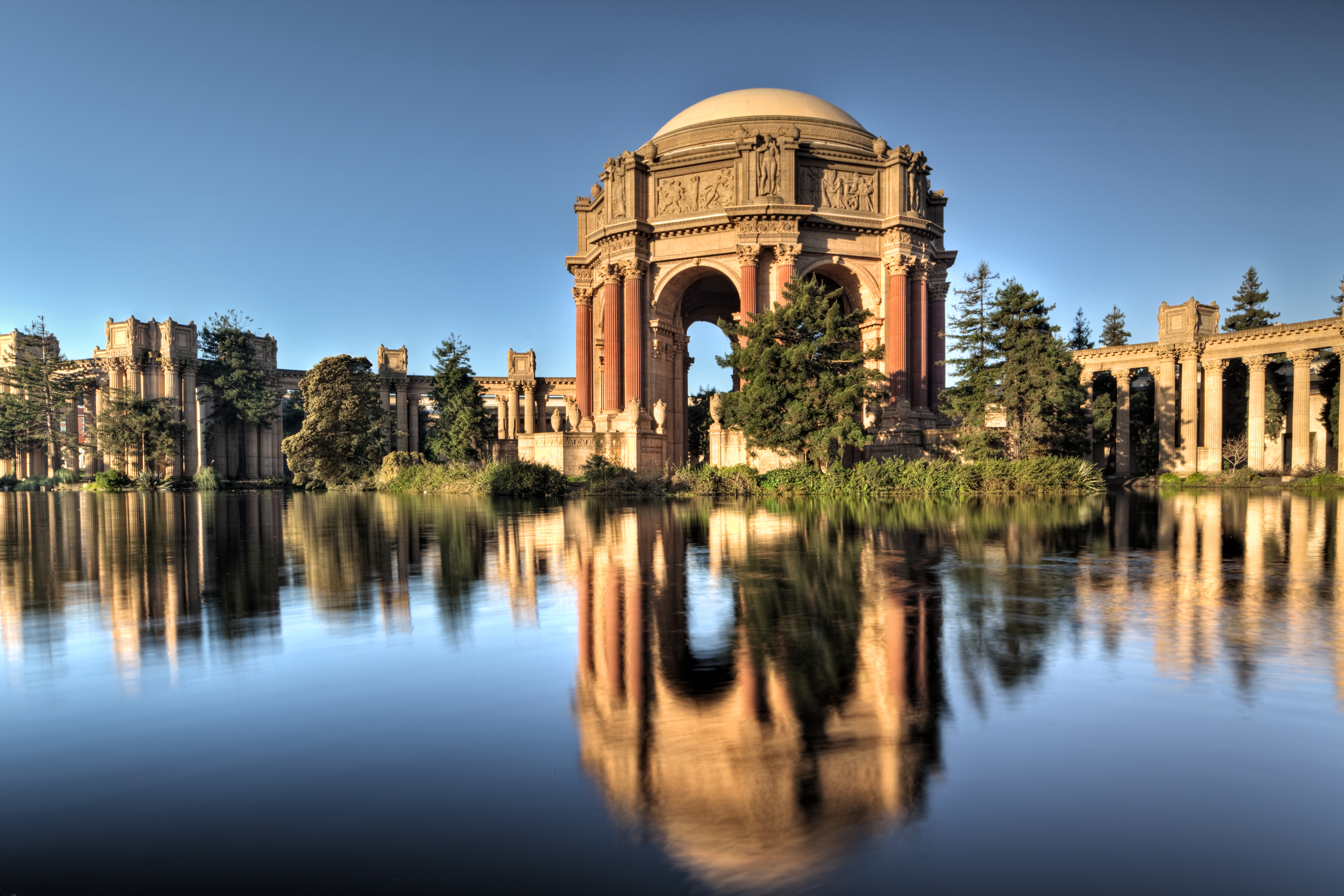 The Palace of Fine Arts in San Francisco, California at sunrise. Taken with Canon 5D Mk II w/TS-E 24mm f/4L. Used a Singh-Ray 2-8 stop Vari-ND filter from Singh-Ray Filters and supported on a Really Right Stuff, BH-55 ballhead, and Gitzo GT5531S carbon fiber tripod.